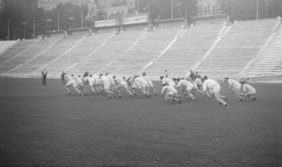 We see football players run during training in the Percival Molson Stadium of McGill University in Montreal.